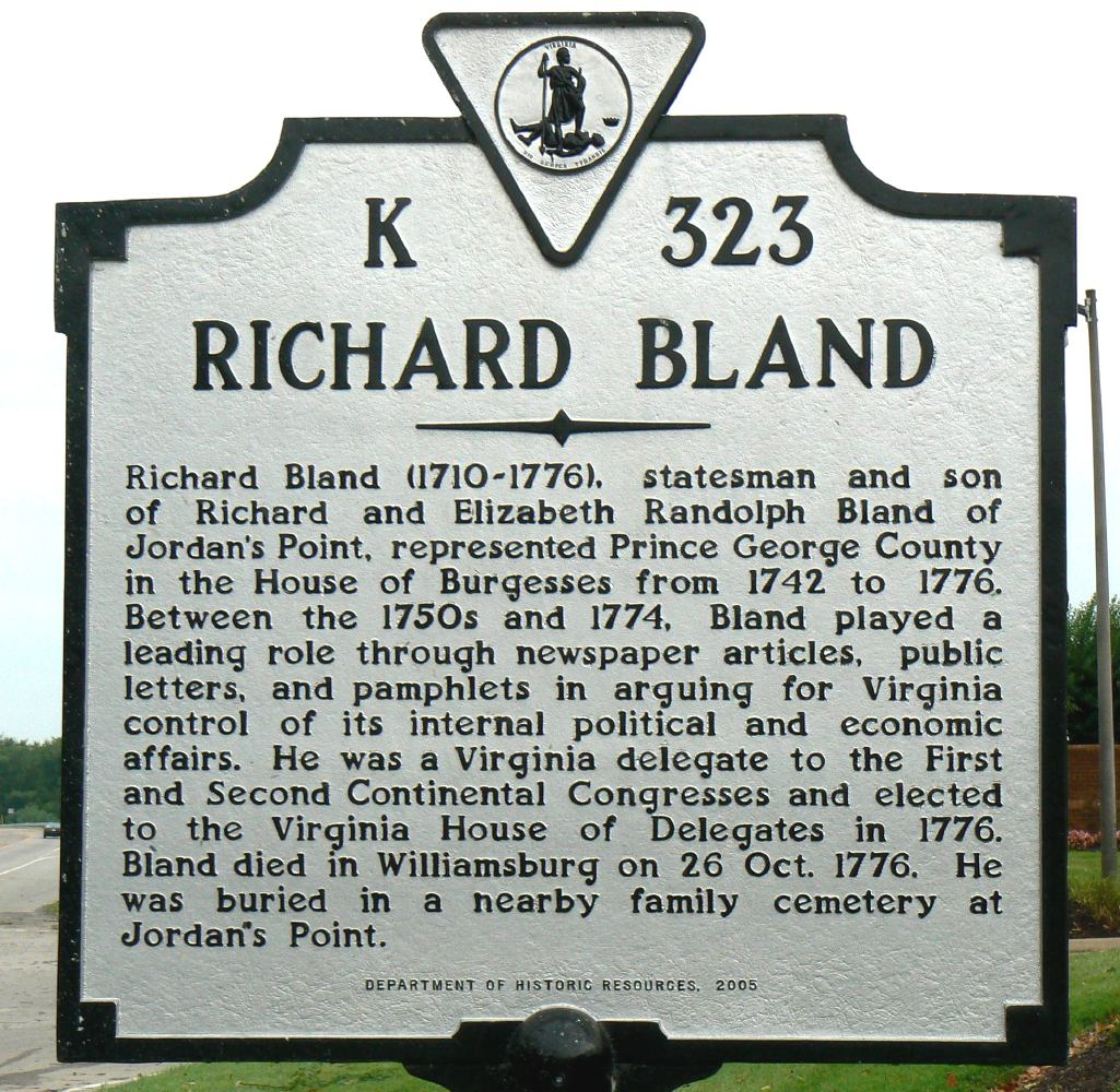 VA Dept. Historic Resources sign at Jordan Pt regarding Richard Bland, on the south bank of the James River near Hopewell VA.